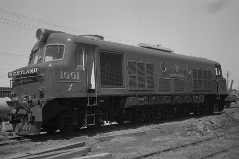 A three quarter view of the class leader of the WAGR X class, no. X1001 Yalagonga, with a Westland nameplate on its front. The locomotive, complete with a similar nameplate, is now preserved at the Western Australian Rail Transport Museum, in Bassendean, Western Australia.